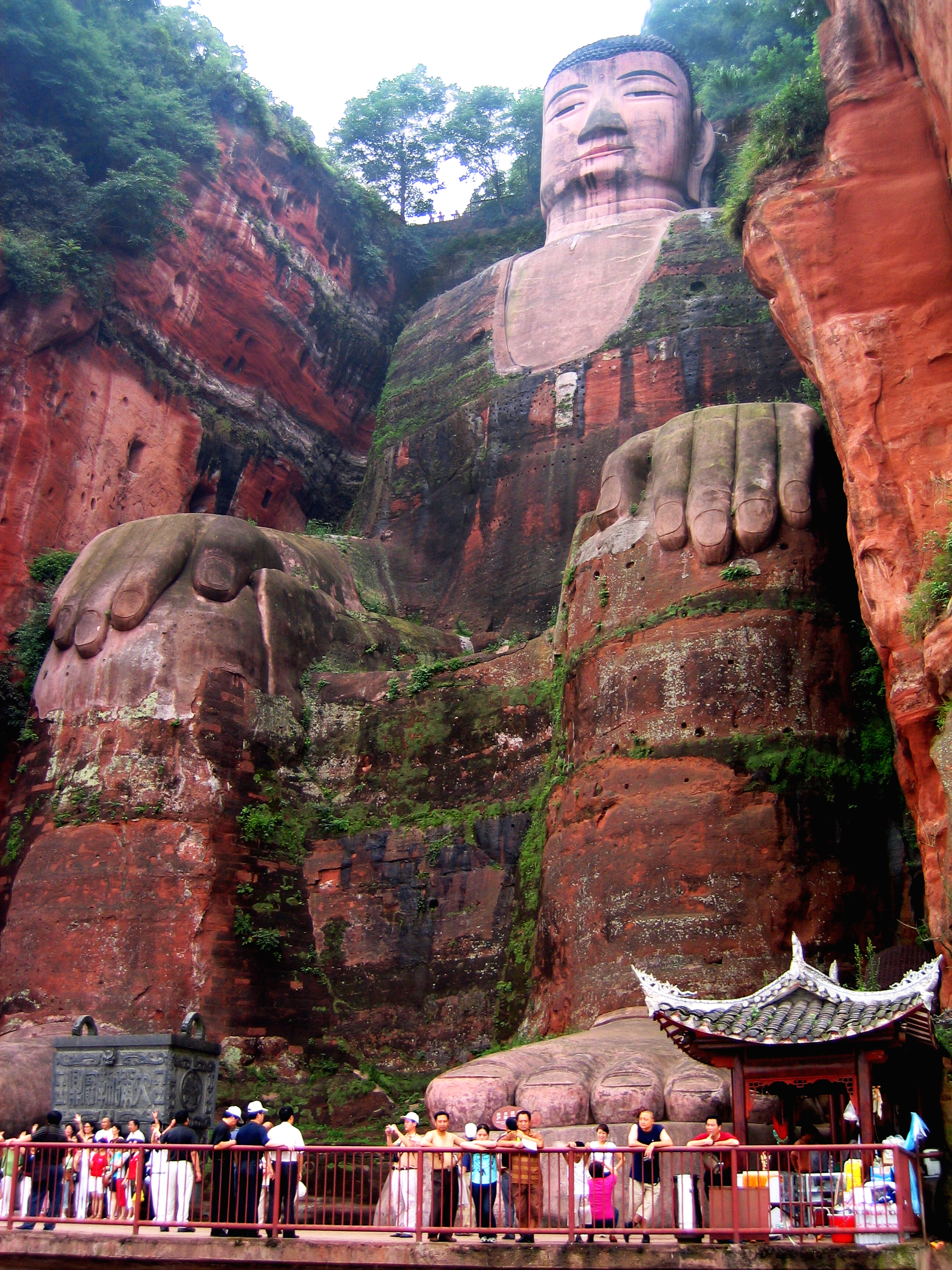 Leshan da fo/Leshan Giant Buddha feet to head, Flickr image, modified by Rbmk.